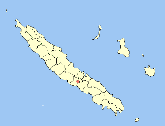 Created map myself.